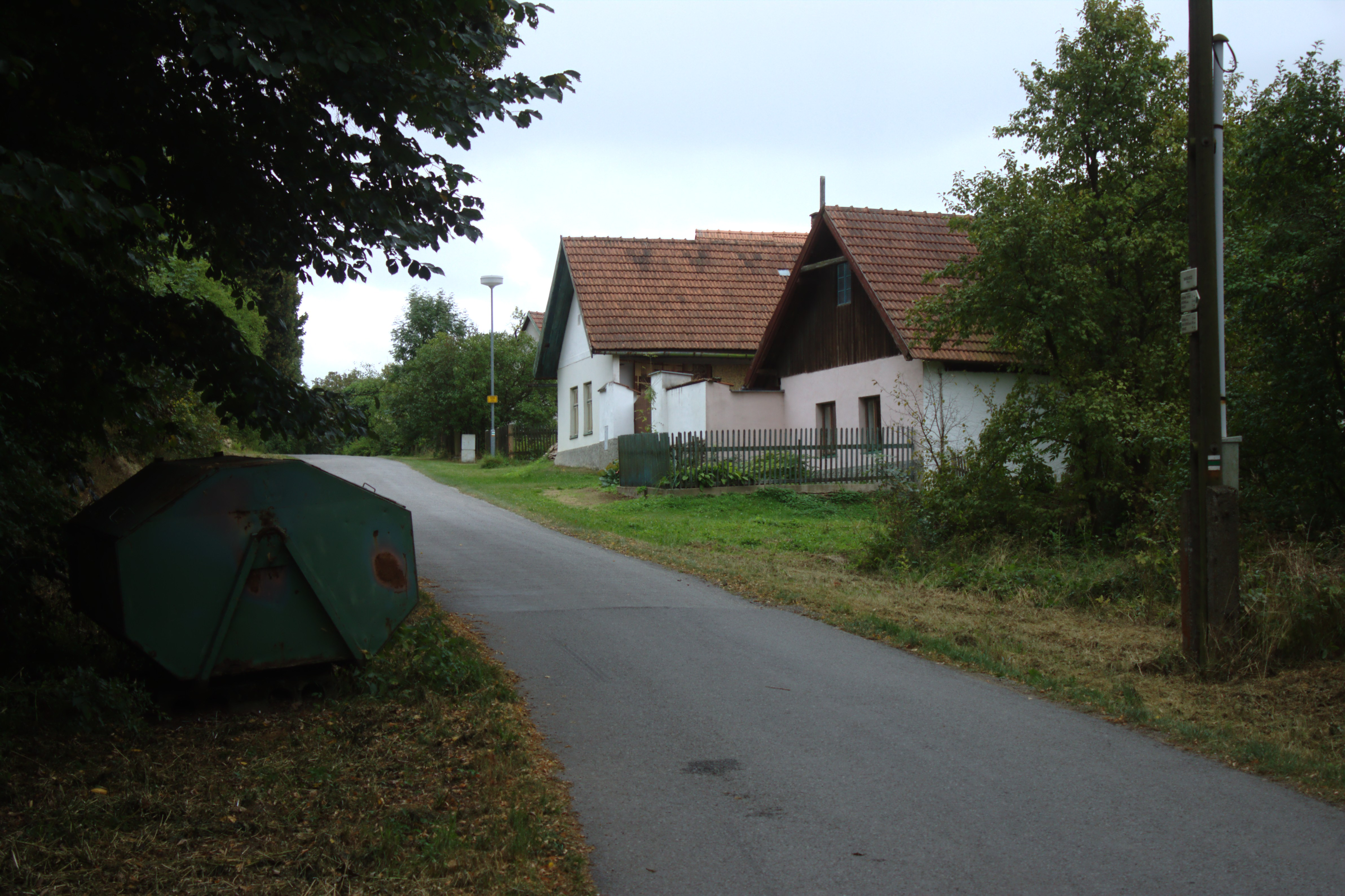 Main road in the village of Mašovice near Hořepník, CZ